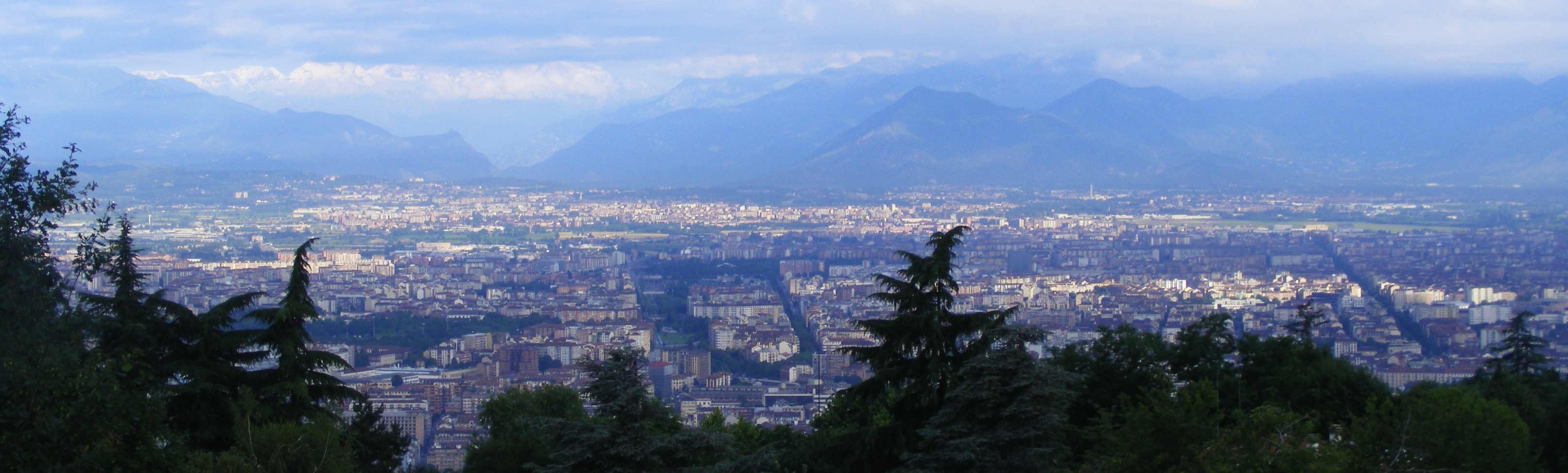 Metropolitan area of Turin (Italy) and the end of Susa Valley as seen fron Turin's hills (quadrivio Raby)